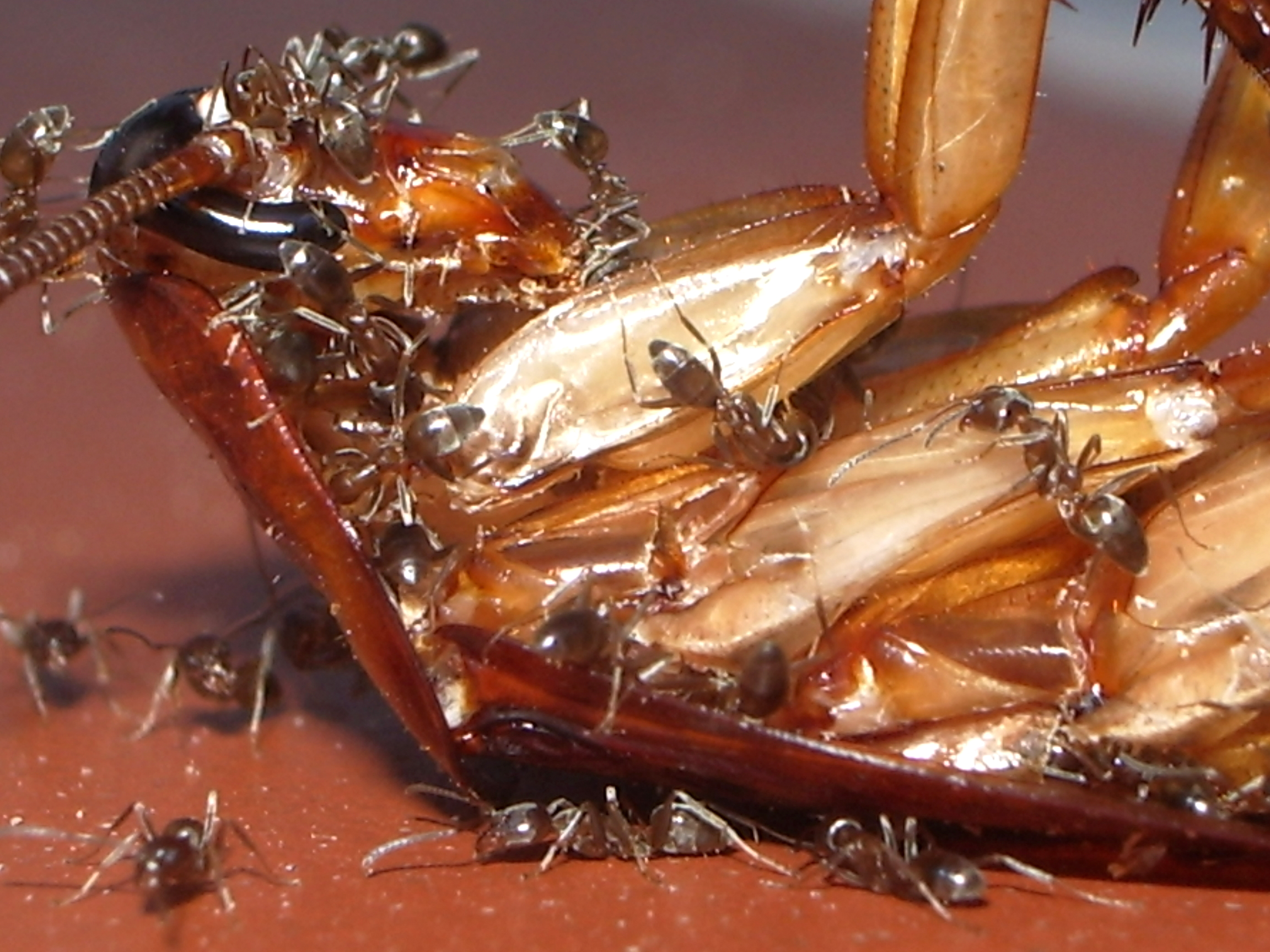 Carrion ants on a cockroach